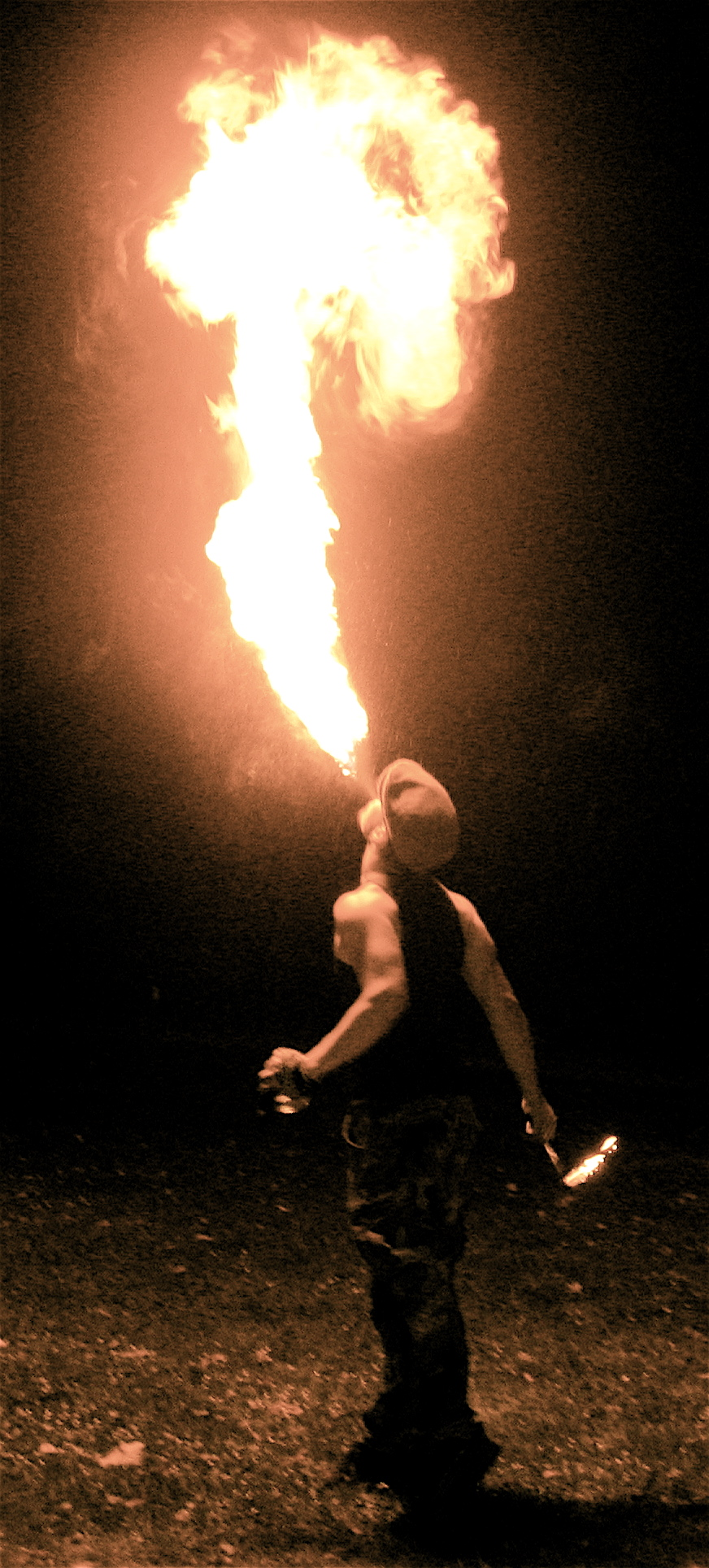 Dragons breath